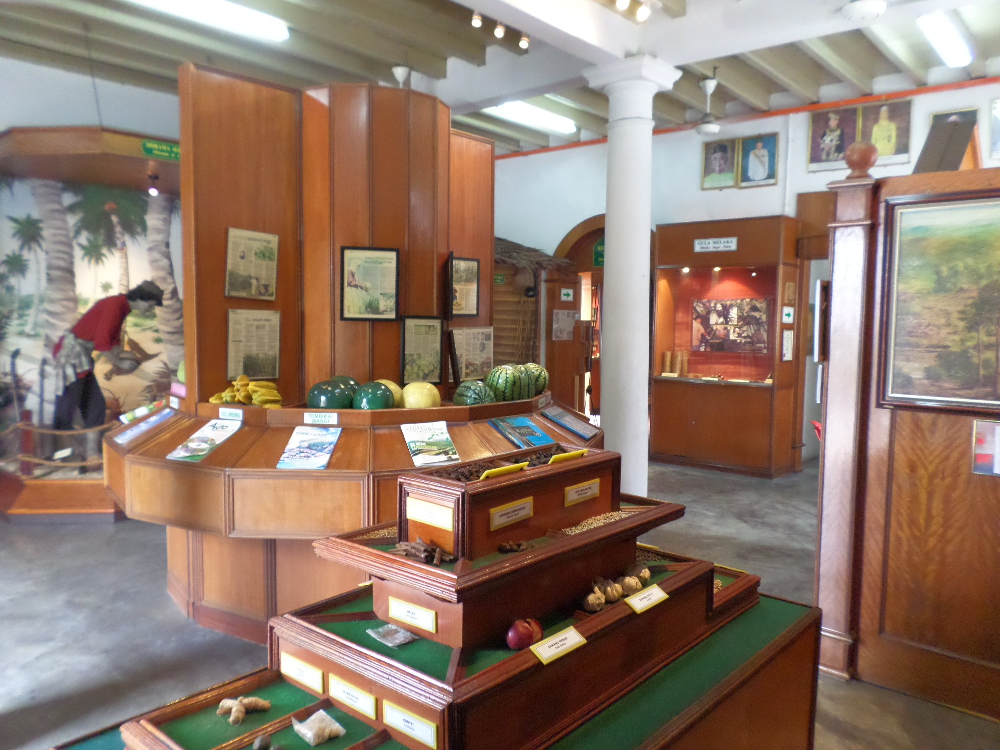 Agricultural Museum, Jasin, Melaka, MalaysiaBahasa Melayu: Muzium Pertanian, Jasin, Melaka, Malaysia